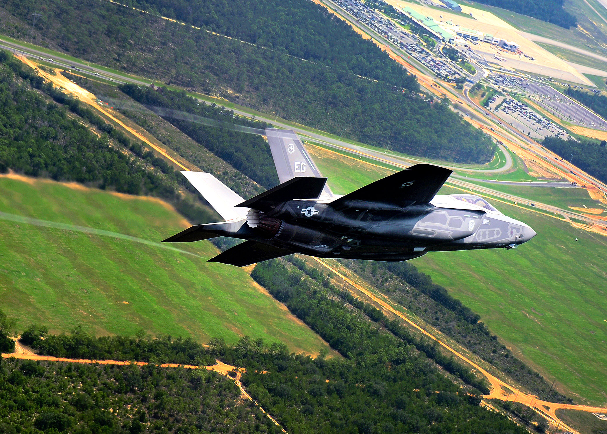 First Lockheed Martin F-35A Lightning II 08-0747 Arrives at Eglin AFB Florida 14 July 2011